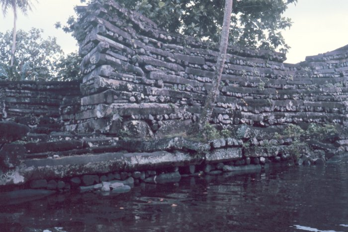 Nan Madol